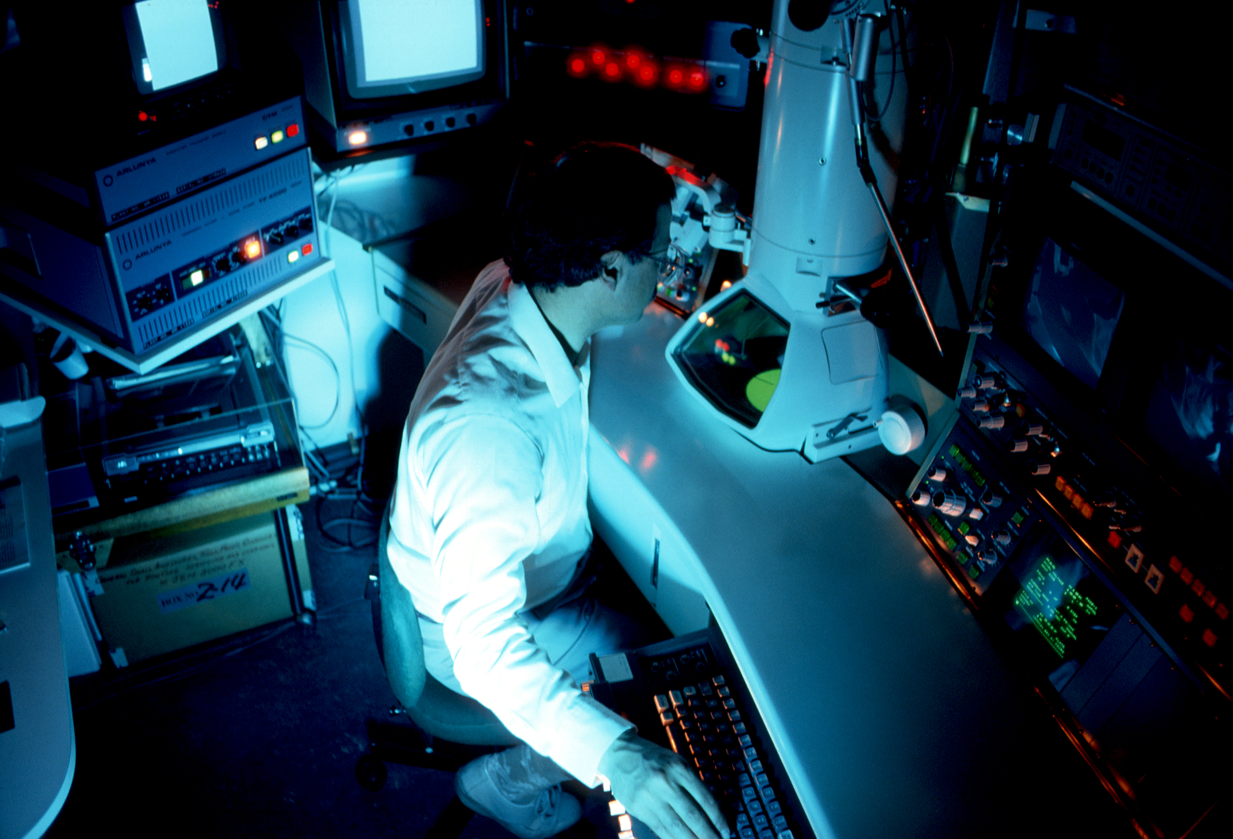 A scientist using a transmission electron microscope.